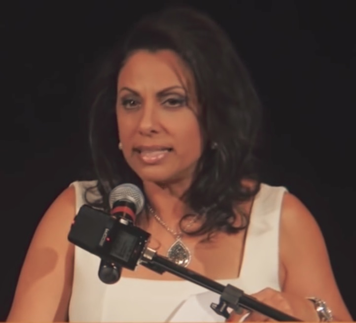 Brigitte Gabriel speaks in Twin Falls, Idaho about refugee crisis.